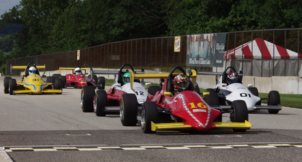 Formula Mazda action in the Formula Car Challenge